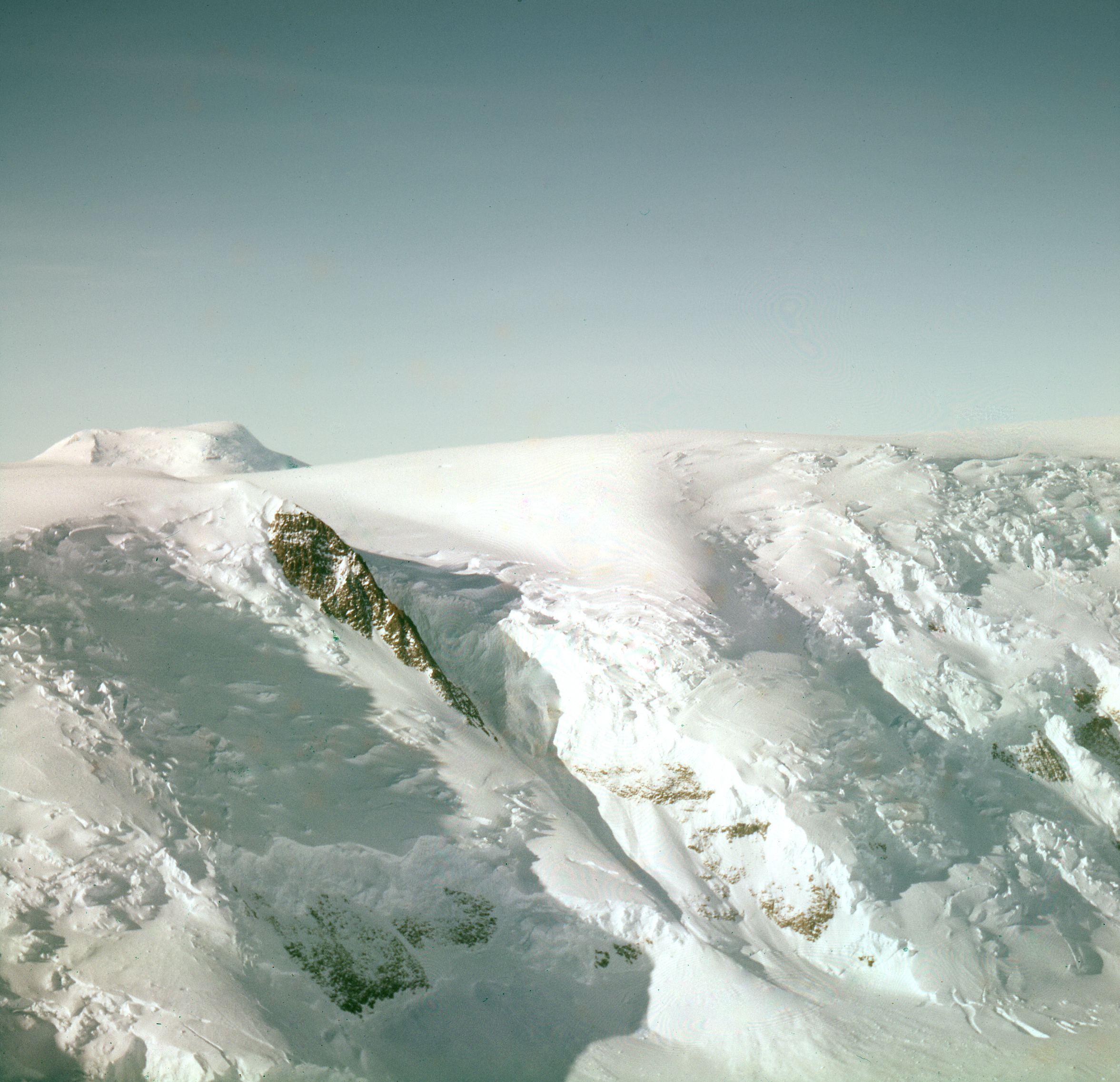 An unidentified portion of the Axel Heiberg Glacier - Antarctica